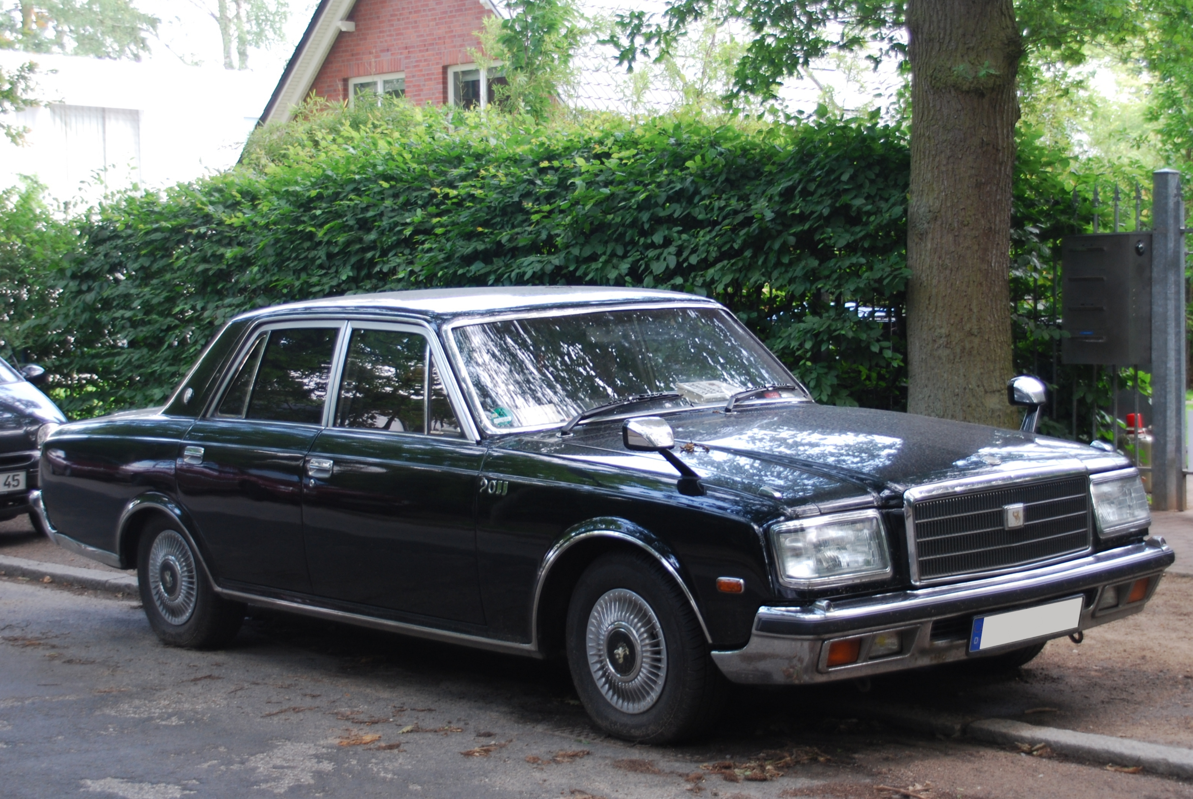 Toyota Century,1st Series. Registered in Germany